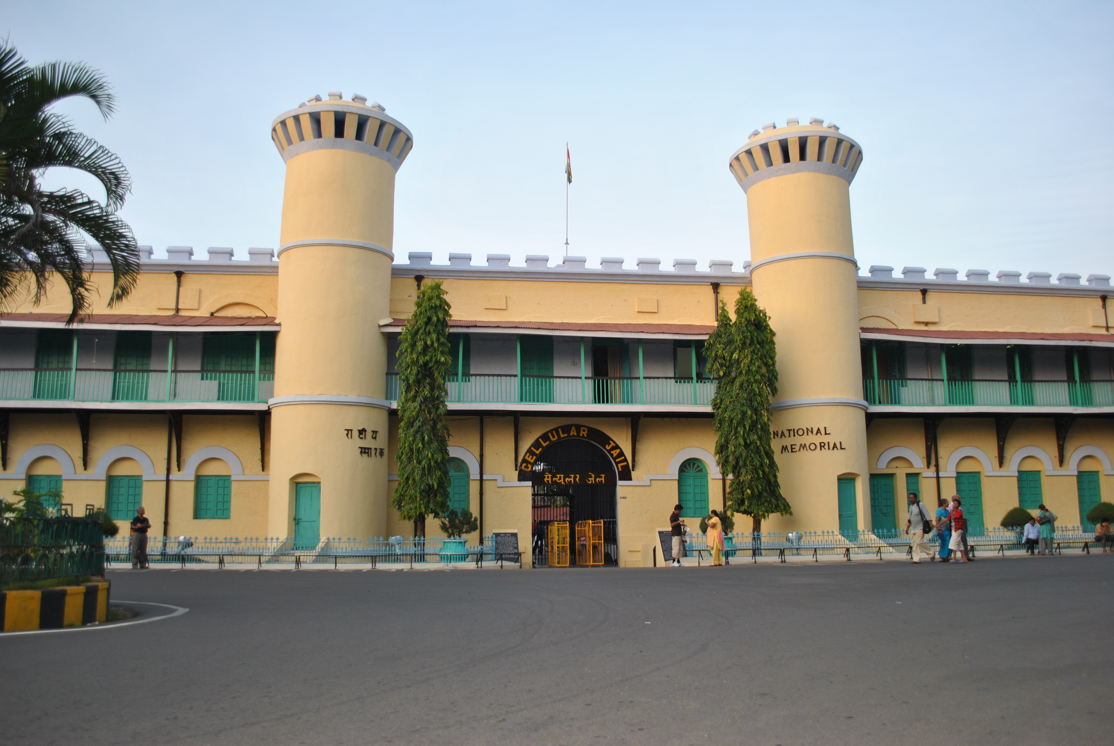 This Photo is the front view of Cellular Jail, located at Port Blair, Andaman Nicobar Islands, India